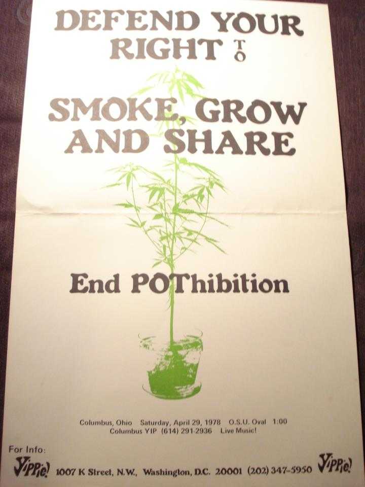 Poster advertising Yippie-sponsored Smoke-In at Ohio State University, April 29, 1978